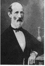 Egidius Slanghen (1820-1882), mayor of Hoensbroek and Voerendaal Limburgs: Egidius Slanghen (1820-1882), börgemeister va Gebrook en Voelender